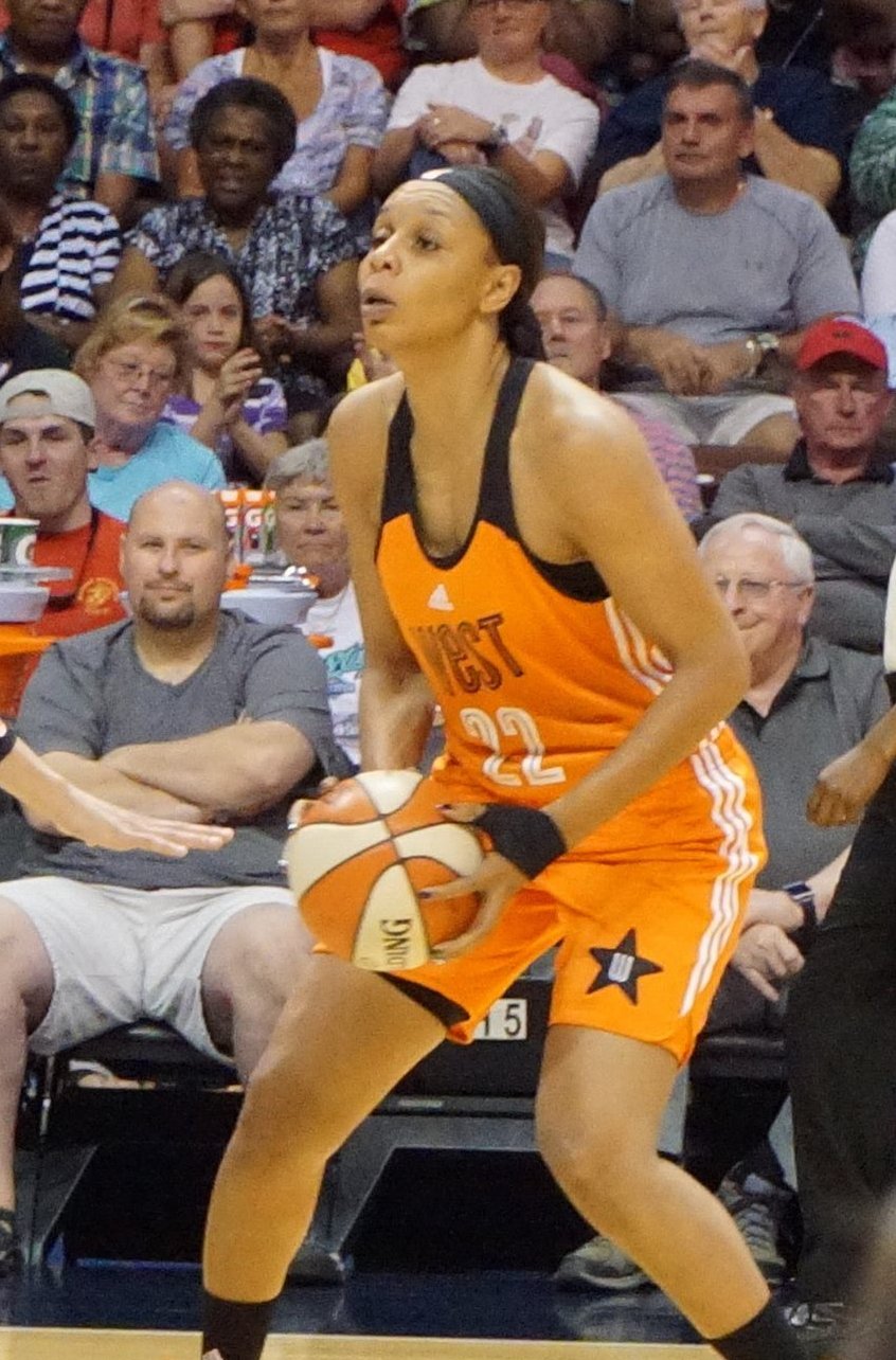 Plenette Pierson at 2015 All-Star game